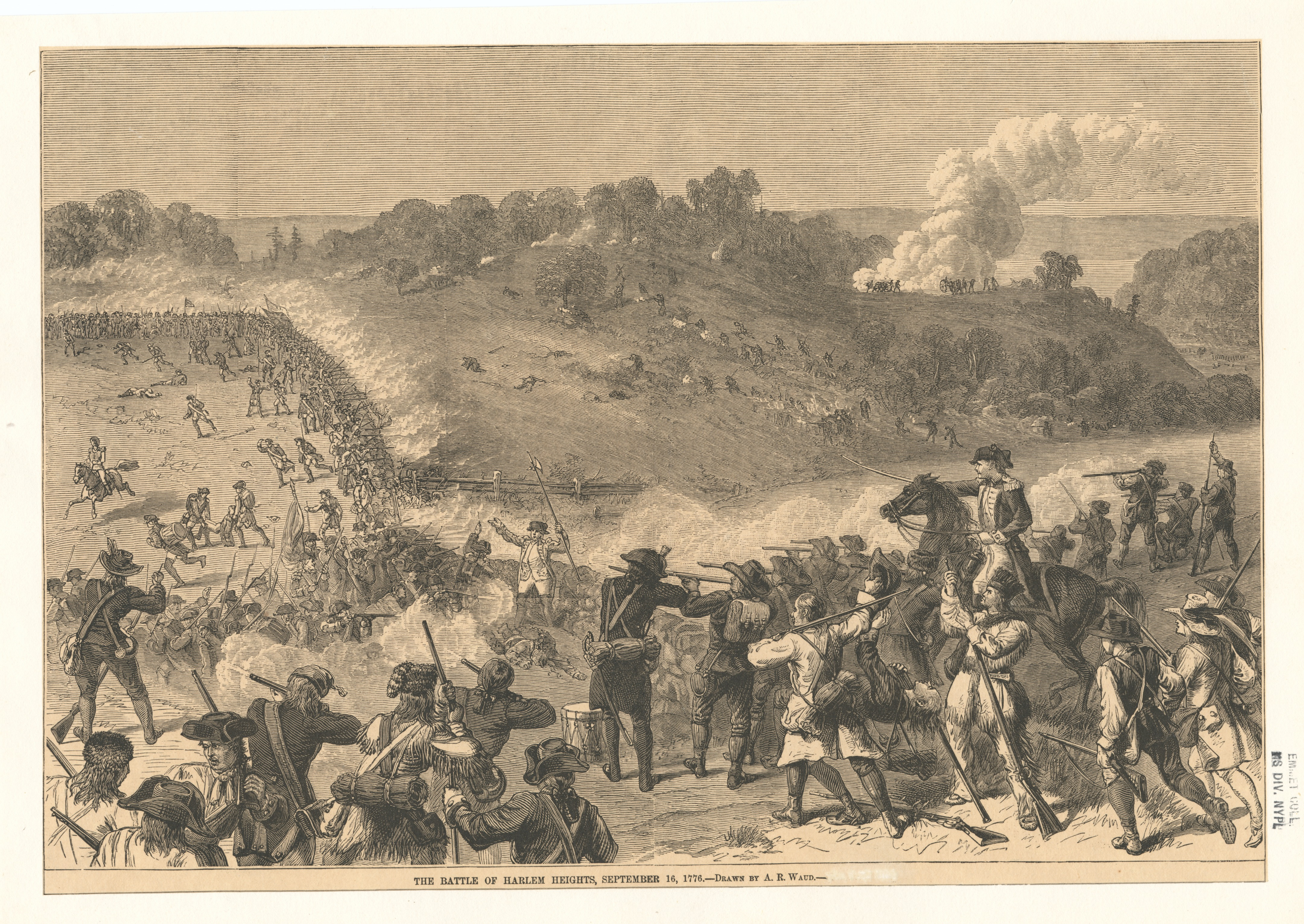 Printmakers include Valentine Green, Henry Bryan Hall and James Barton Longacre. Title from Calendar of Emmet Collection. EM7807